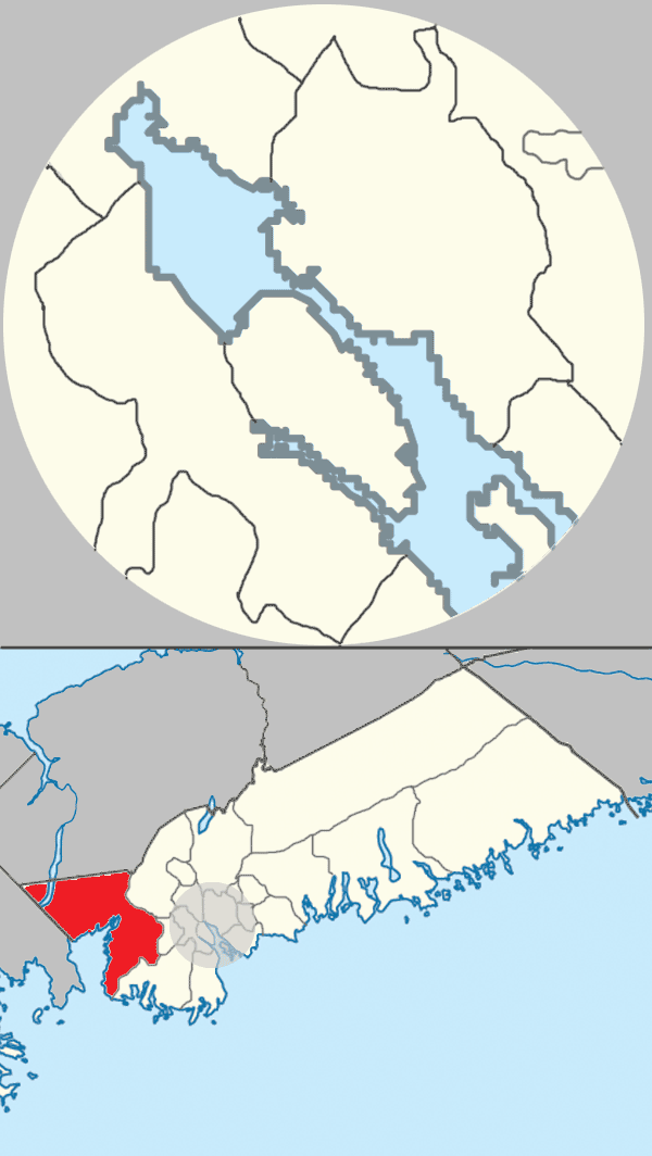 Updated map of Saint Margaret's Bay planning area in Halifax, Nova Scotia to standard colours, higher resolution, using